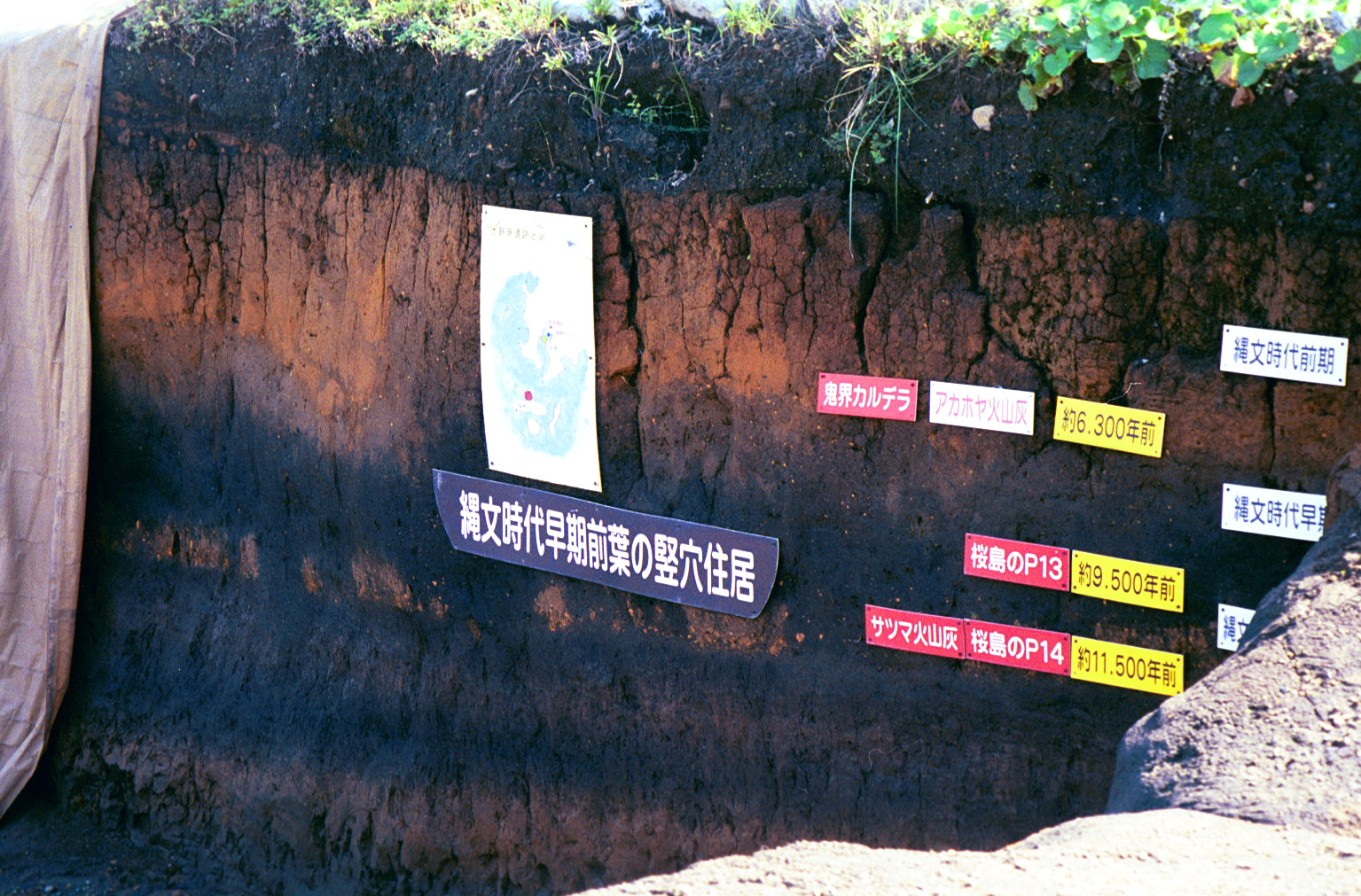 Jomon Site Stratigraphy. Uenohara Jomon Village, Kagoshima, Japan A cut through the soil demonstrates the stratigraphy of the Uenohara site, as labels identify the dating and other characteristics of each layer.